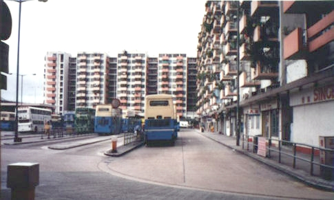 (Benjwong at northpoint Hong Kong)